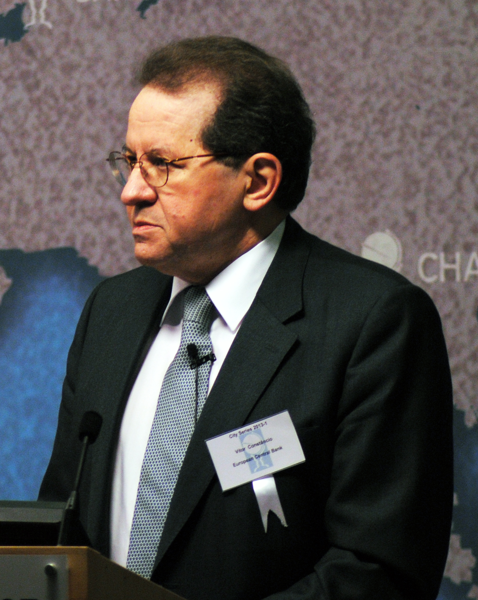 Financial Regulation: Towards a Global Regulatory Framework? 11 March 2013